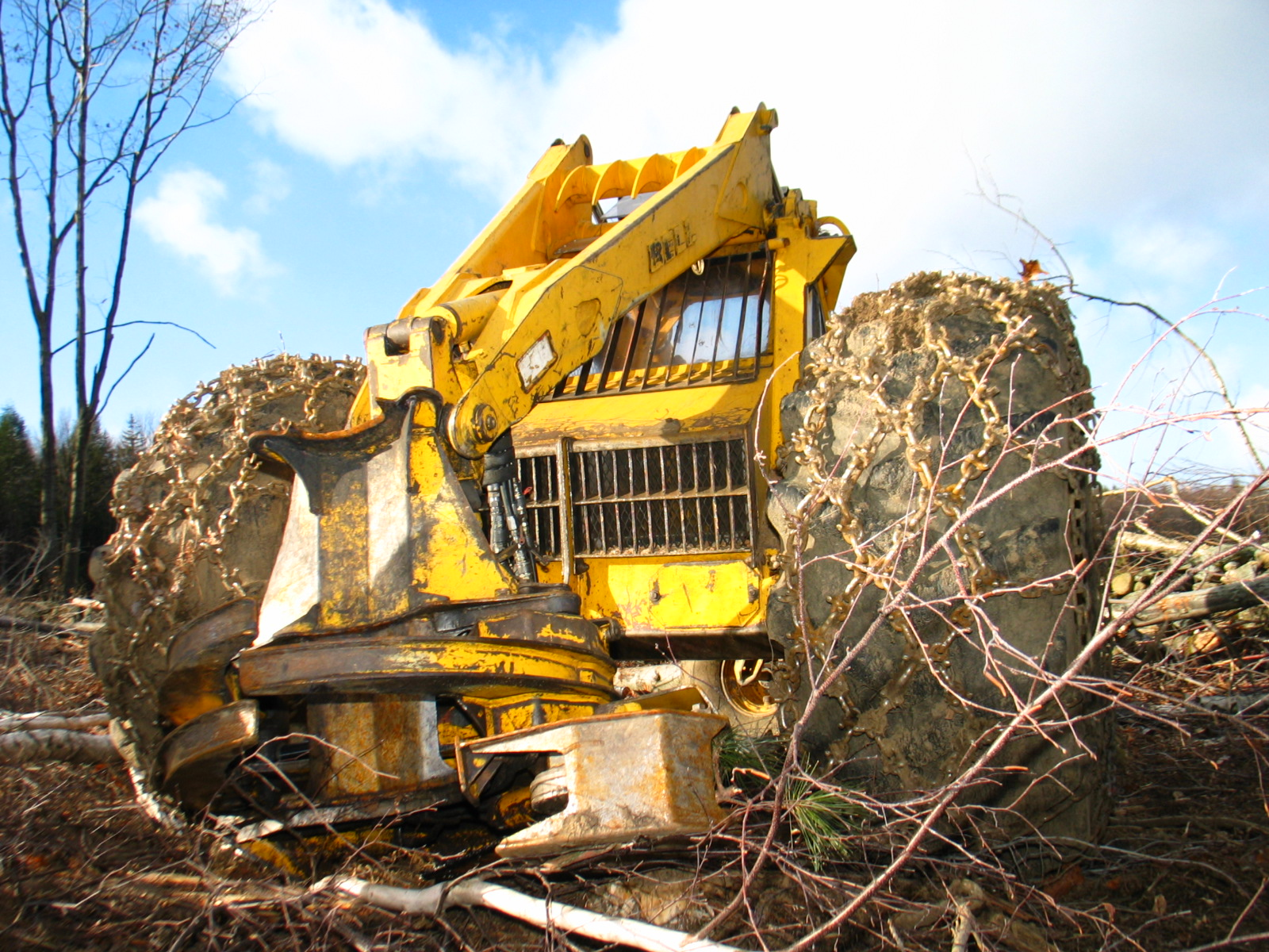 A photo of a feller used in logging.